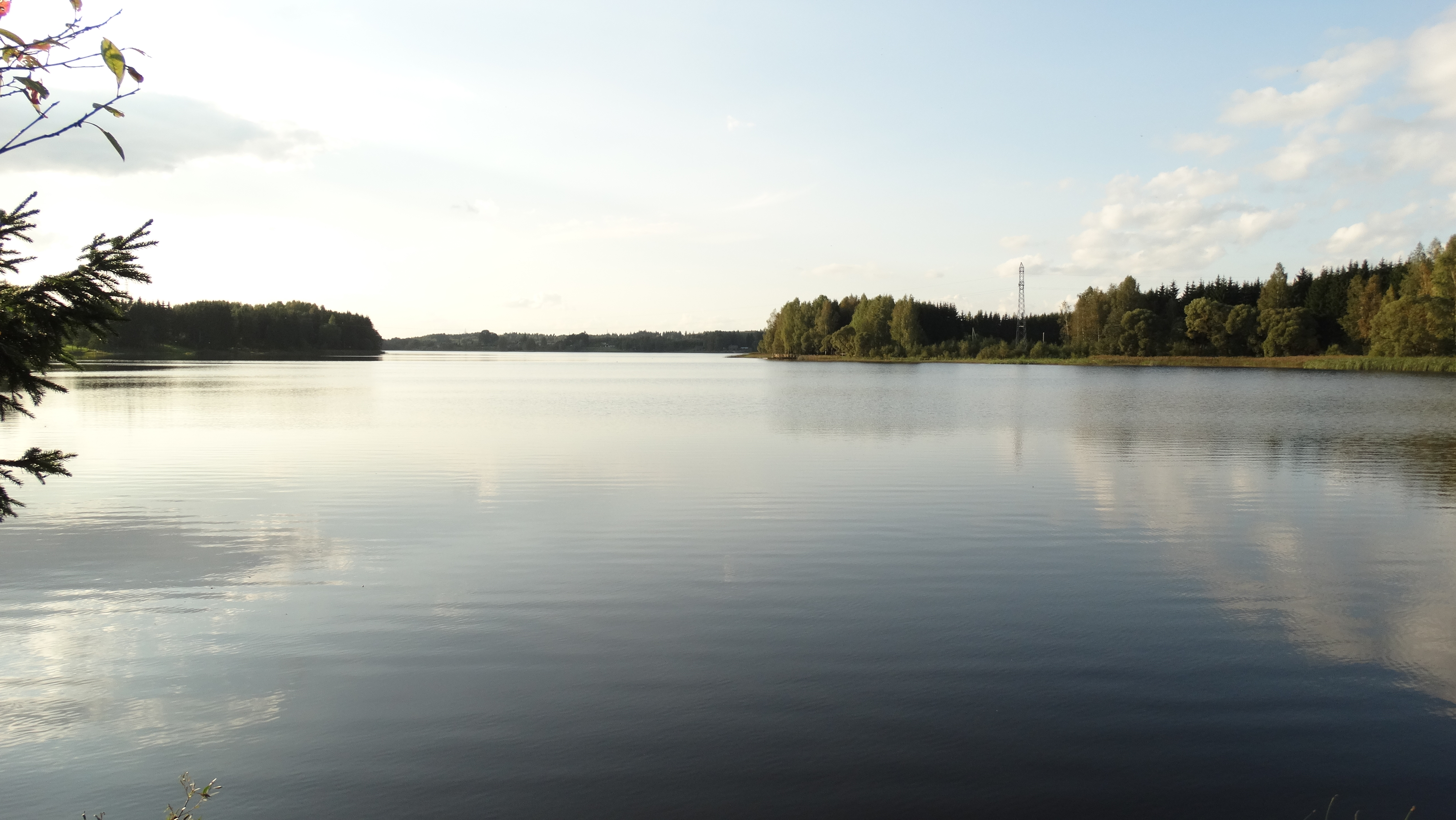 Utena pond, Lithuania